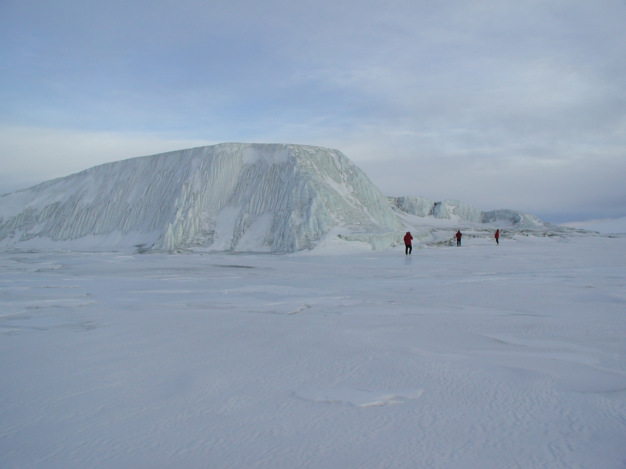 New Harbour is a bay about 10 miles (16 km) wide between Cape Bernacchi and Butter Point along the coast of Victoria Land, due west of Ross Island. (Original title: a stamukha in New Harbor)